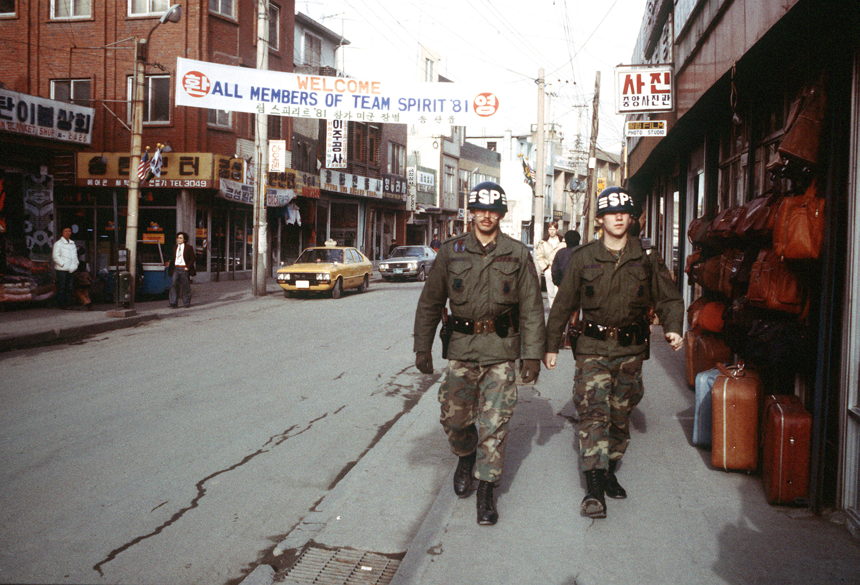 Security policemen patrol a street of Son Tan Up during exercise Team Spirit '81. Scope & Content The original finding aid described this photograph as: Subject Operation/Series: TEAM SPIRIT '81 Base: Osan Air Base Country: Republic Of Korea (KOR) Scene Camera Operator: TSGT Bert Mau Release Status: Released to Public